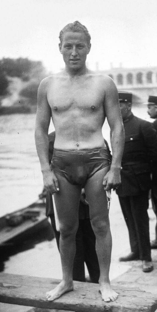 Picture of Renato Bacigalupo